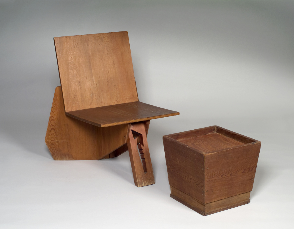 Chair and stool from Goetsch-Winkler House, Okemos, Michigan.